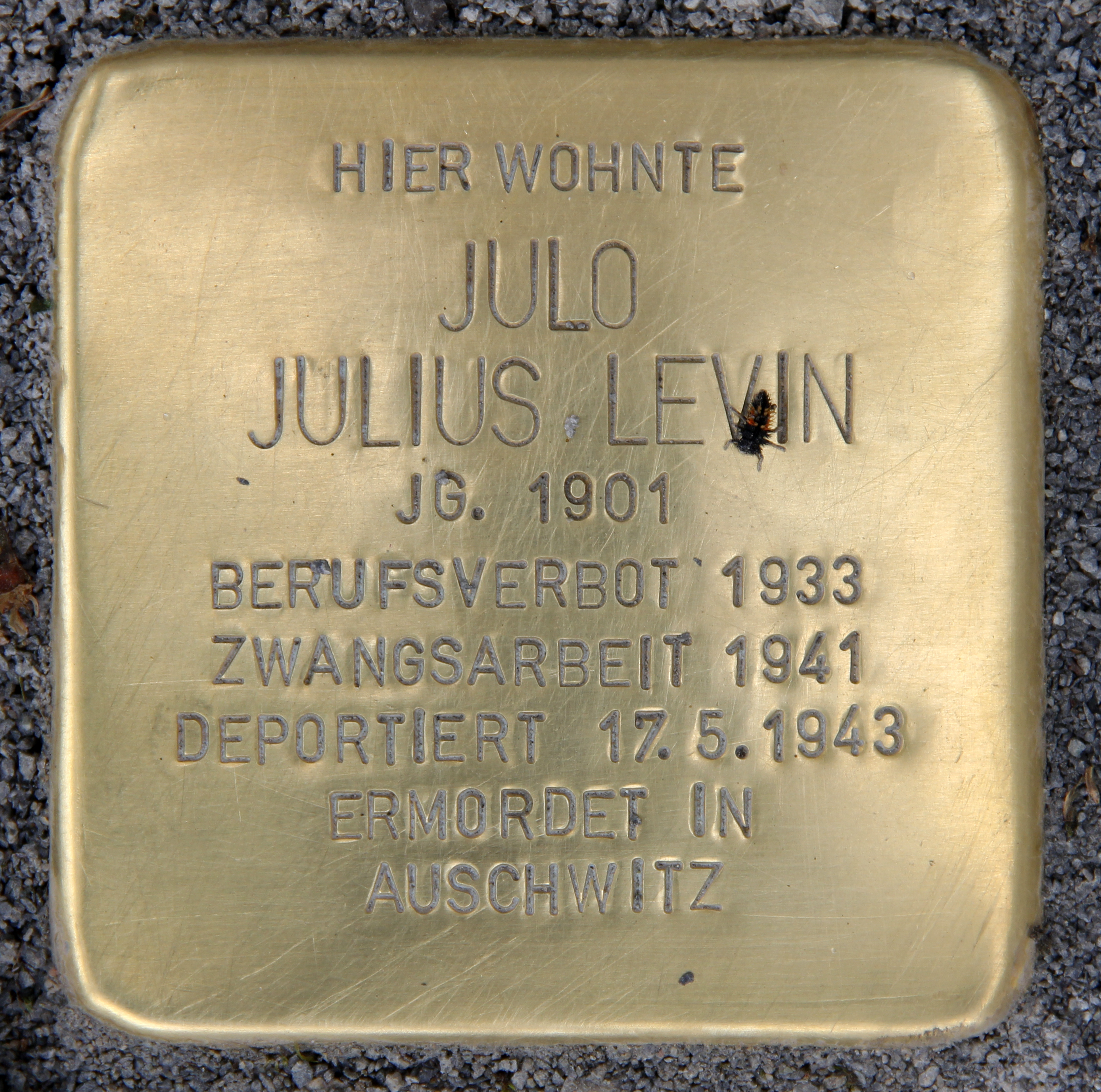 "Stolperstein" (stumbling block), Julo Julius Levin, Seydelstraße 7, Berlin-Mitte, Germany